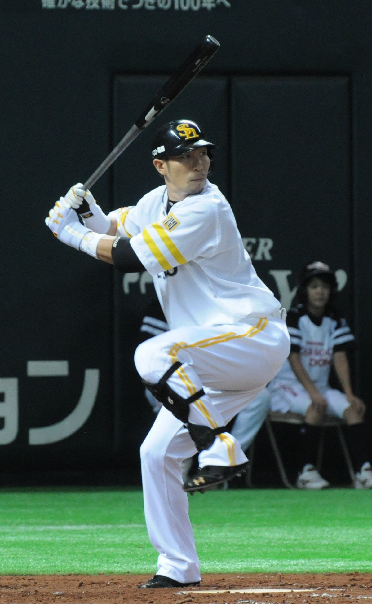 Hitoshi Tamura, outfielder of the Fukuoka SoftBank Hawks, at Fukuoka Dome.